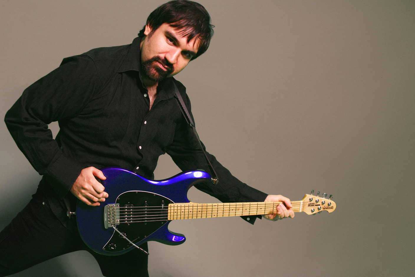 Richie Castellano, guitarist for Blue Öyster Cult